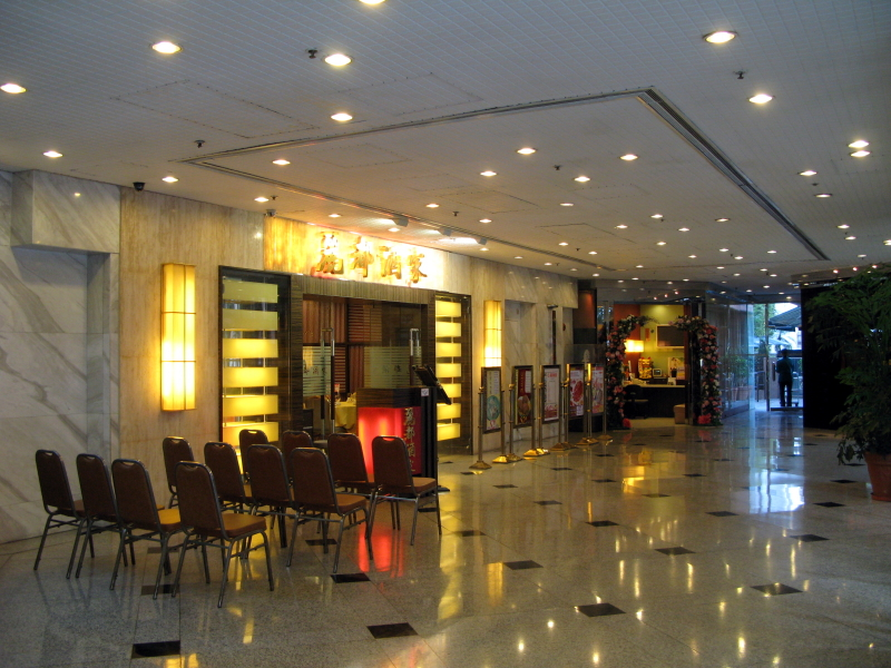 New Town Tower G/F